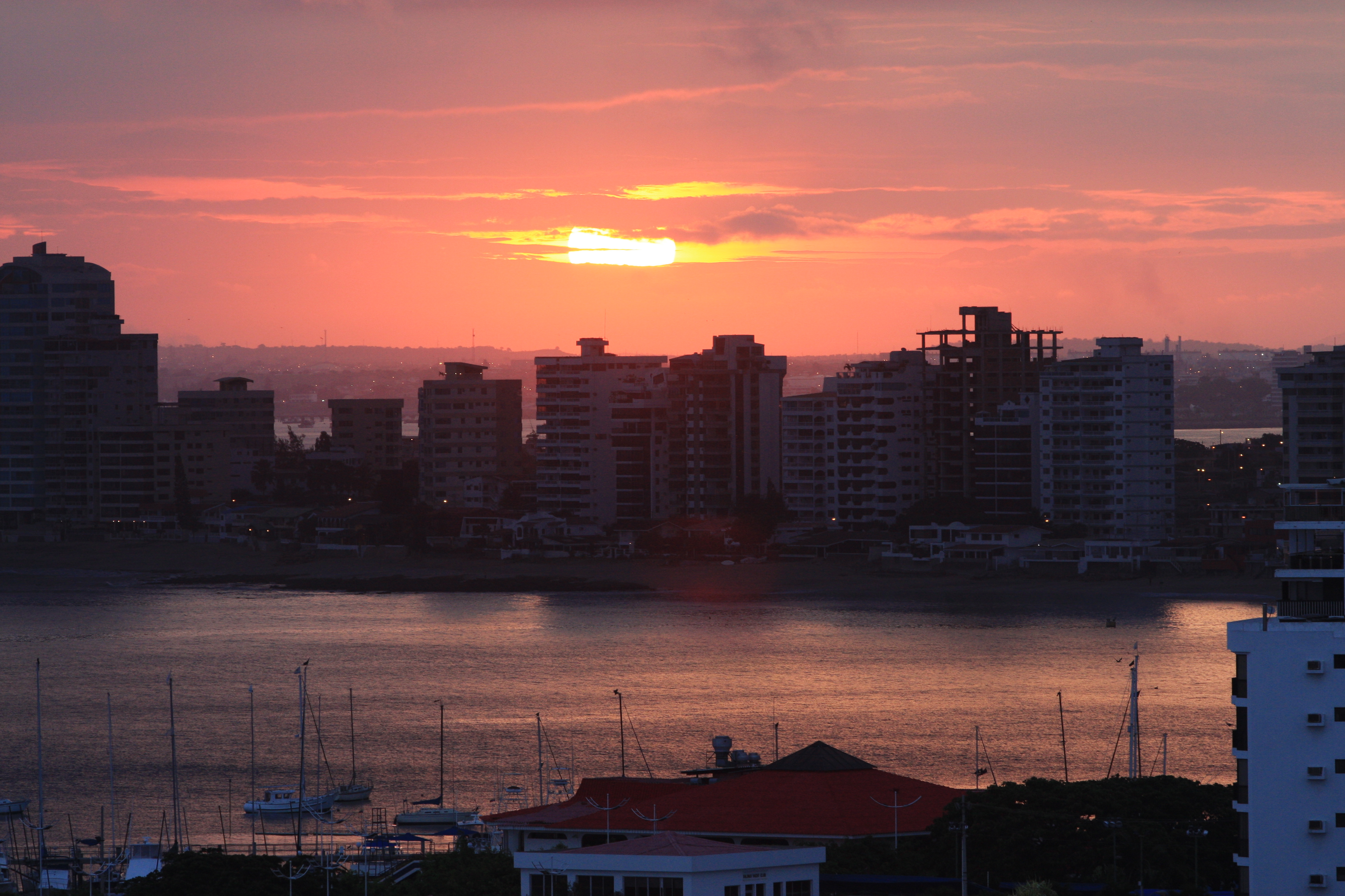 taken at sunset in salinas south america in the coast of ecuador in 2009